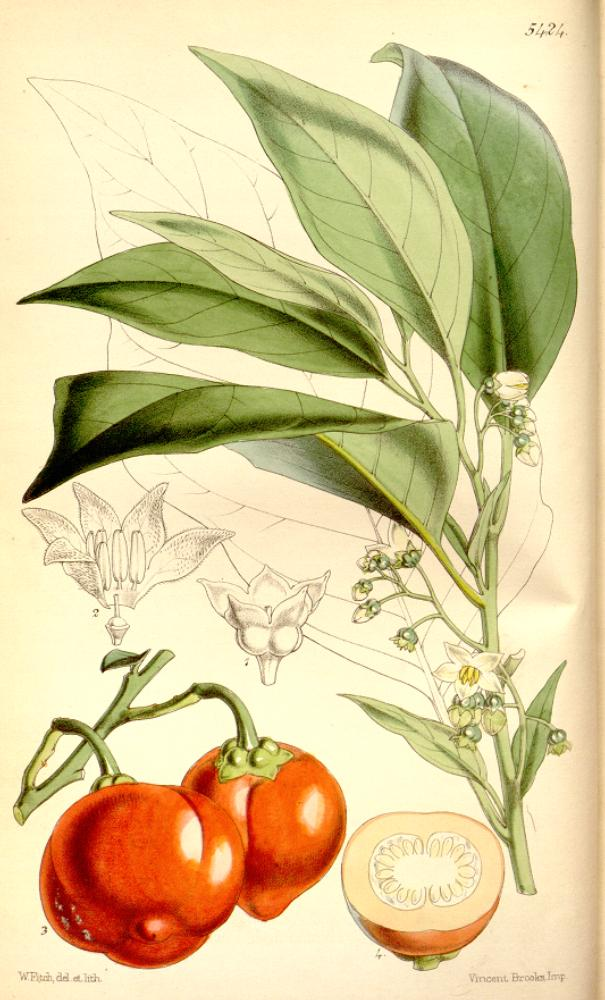 Illustration of Solanum uporo (Orig: Solanum anthropophagorum)